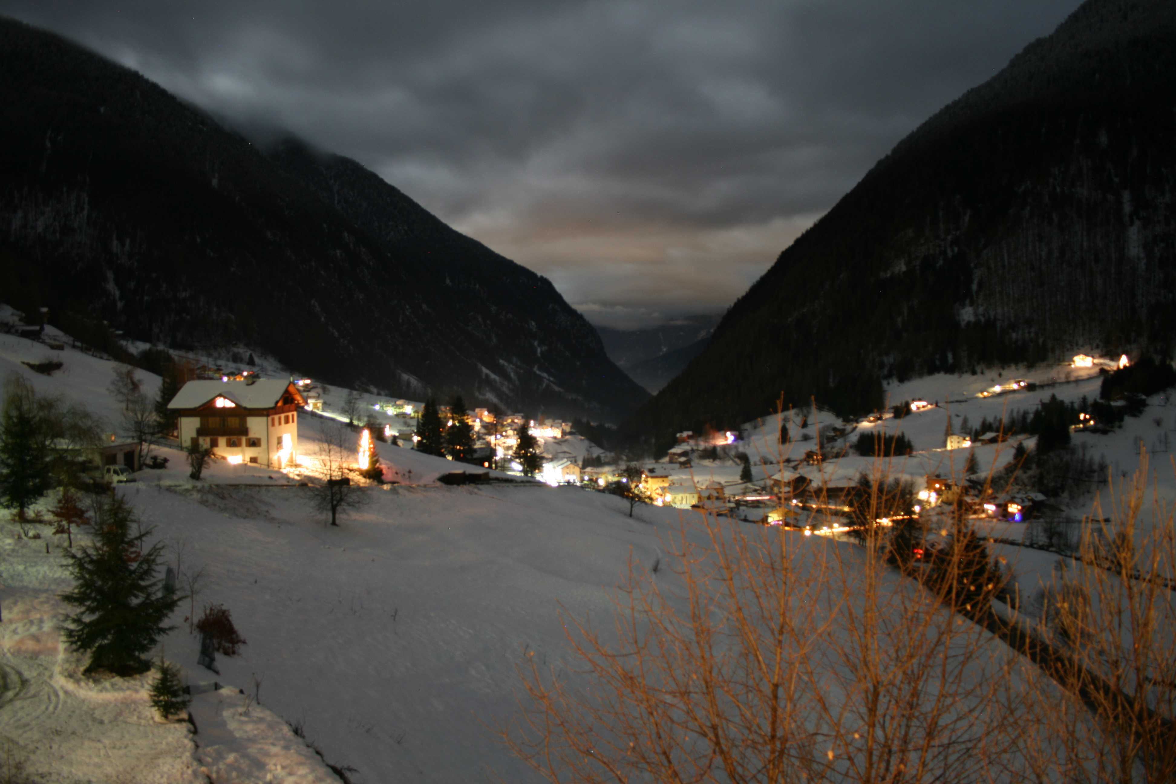 View from Rabbi, Italy.